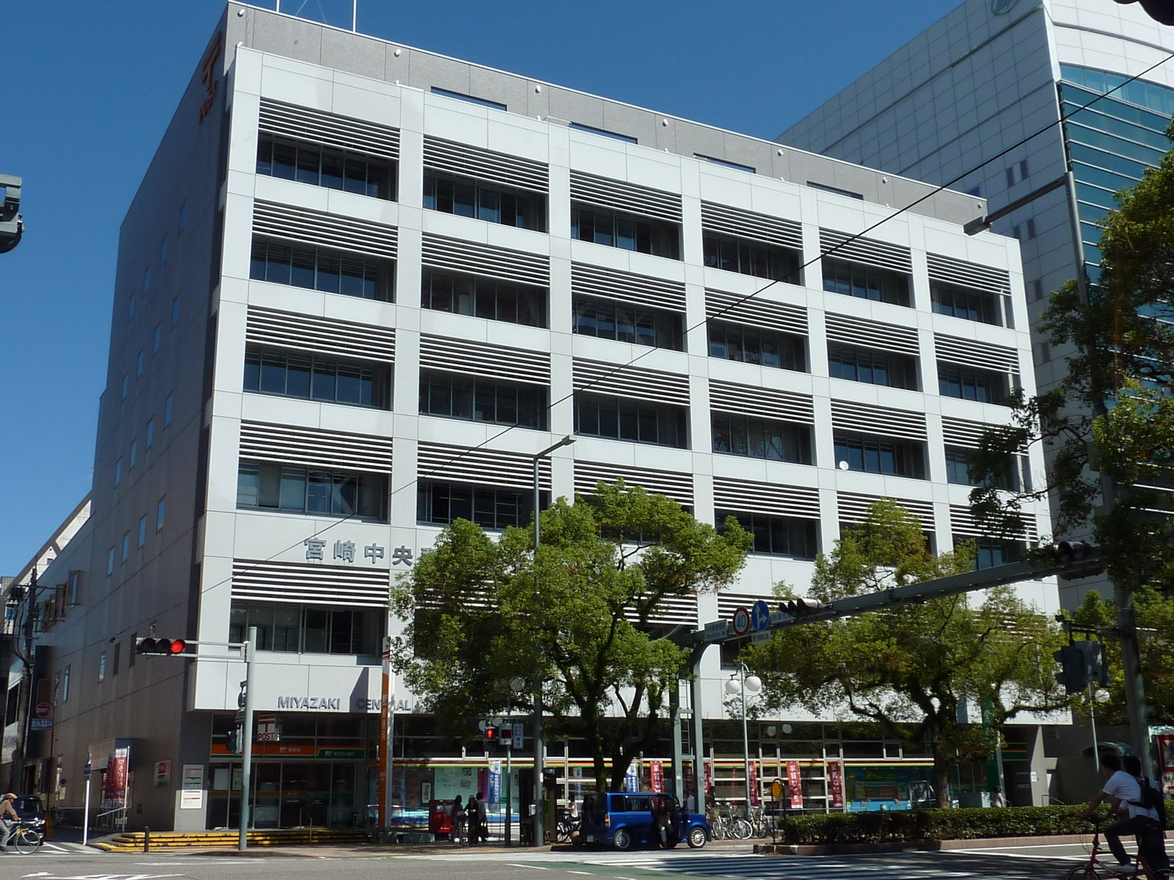 Miyazaki Central Post Office(Miyazaki Prefecture, Japan)